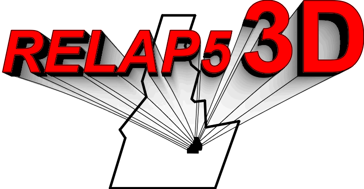 RELAP5-3D software image, Idaho